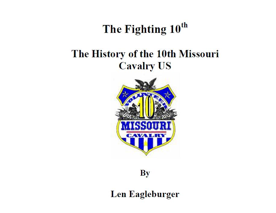 10th MO Cavalry